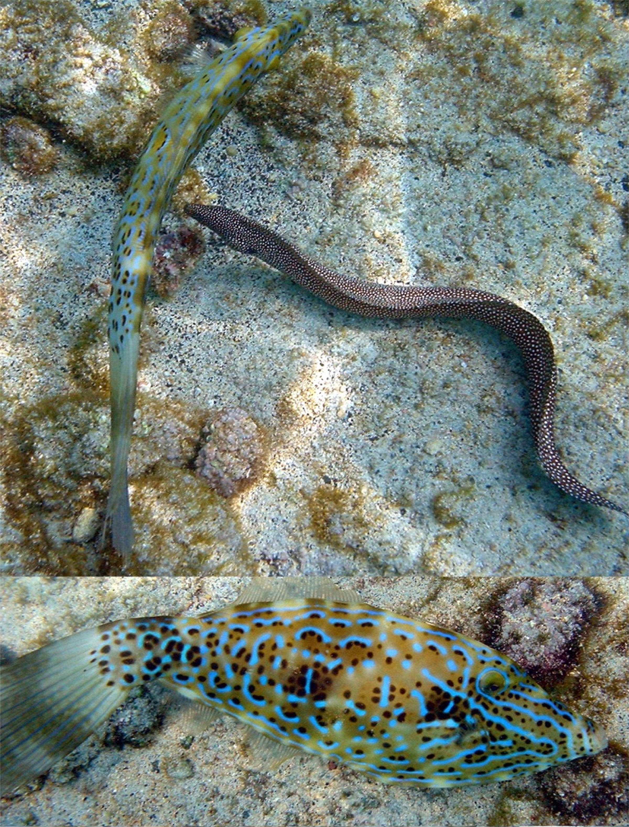 The image is a composite image of 2 images taken a minute appart. The first frame shows an moray eel and a Scribbled filefish, (Aluterus Scriptus), the second image shows the same fish swimming on his side.